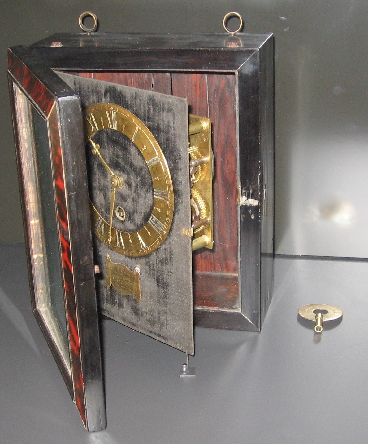 Clock designed by Christiaan Huygens (1629 - 1695) signed by Salomon Coster (16?? - 1659).